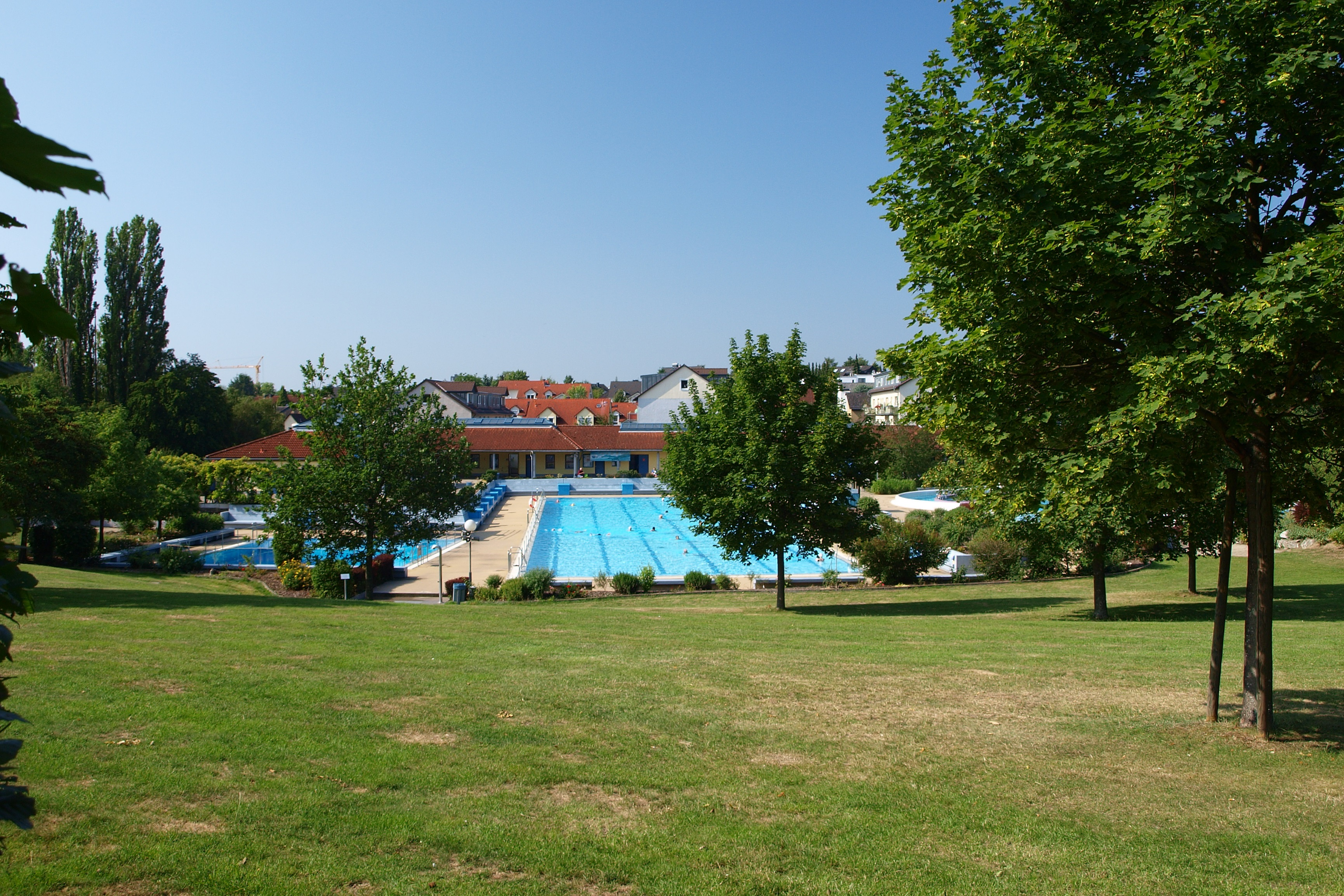 Lido Friedrichsdorf